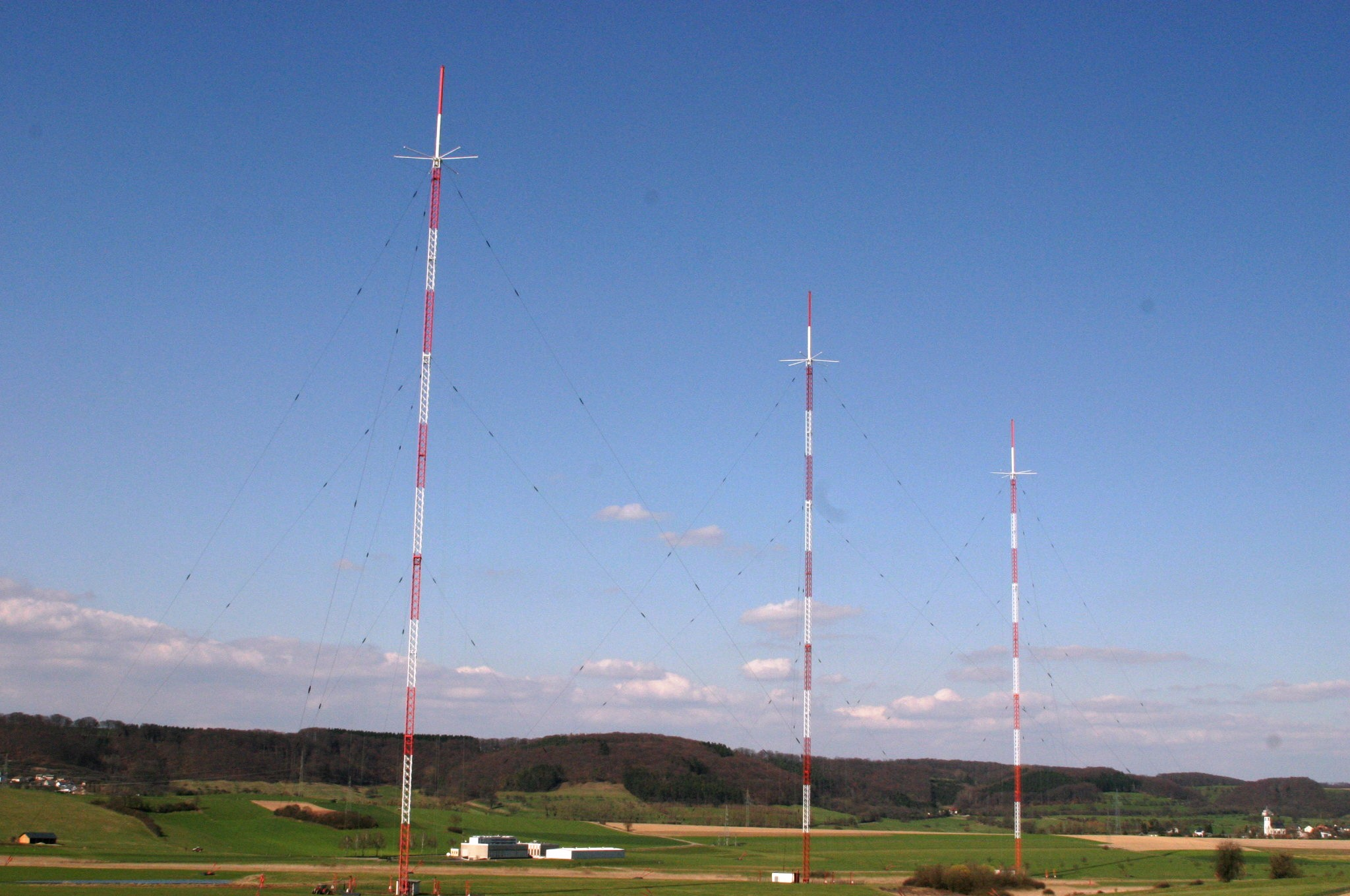 The Beidweiler (Luxembourg) Longwave Transmitter is a high-power broadcasting transmitter for the French-speaking programme of RTL radio on the longwave frequency 234 kHz